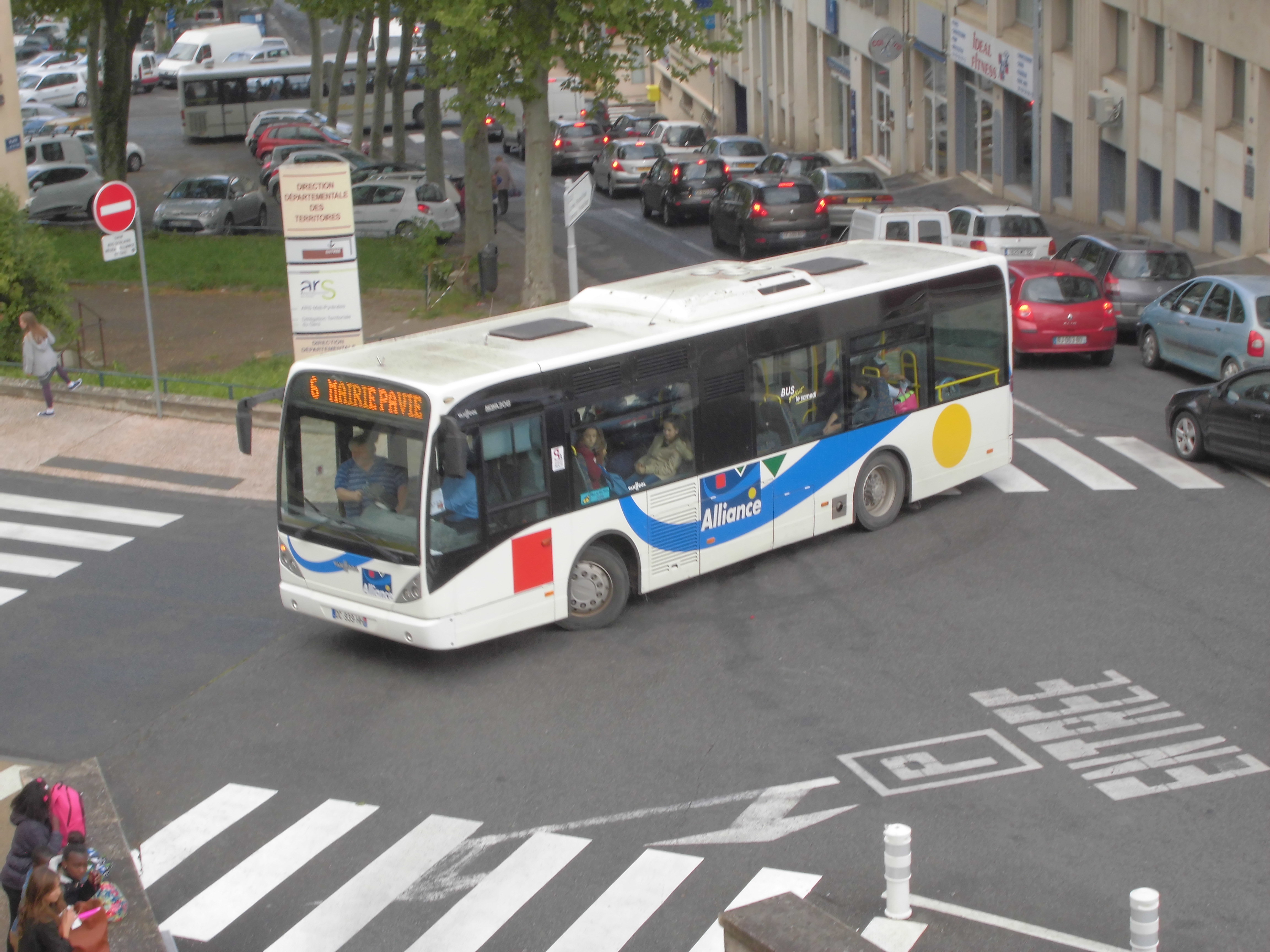 Bus sur la ligne 6 du réseau urbain de Auch (32).